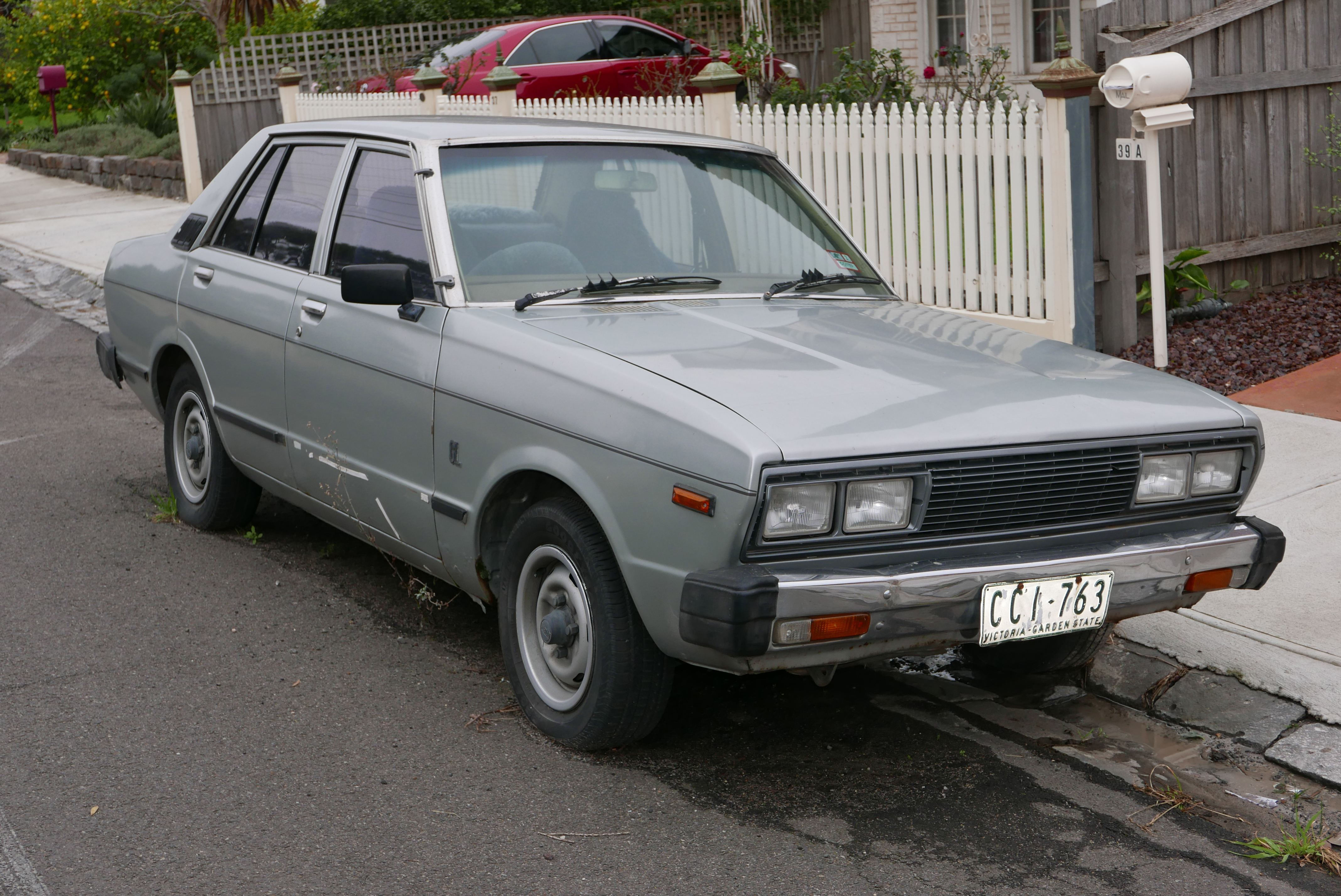 1981 Datsun Stanza (A10) GX sedan. Photographed in Coburg, Victoria, Australia. Vehicle registration enquiry results Jurisdiction Victoria Registration CCI763 Chassis code Not available Engine code L16022068A Compliance date Not available Year of manufacture 1982